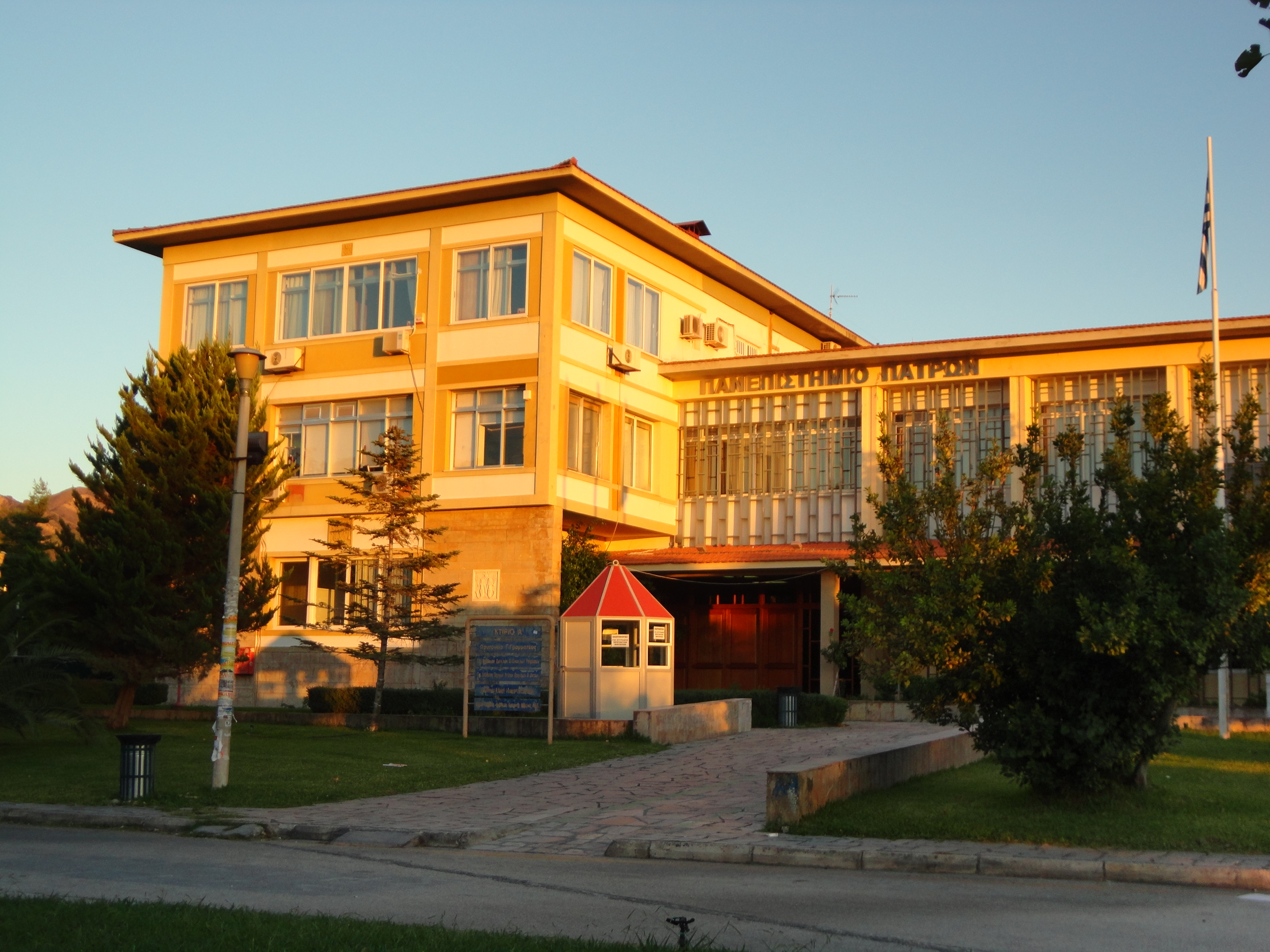 University of Patras, Administration Building